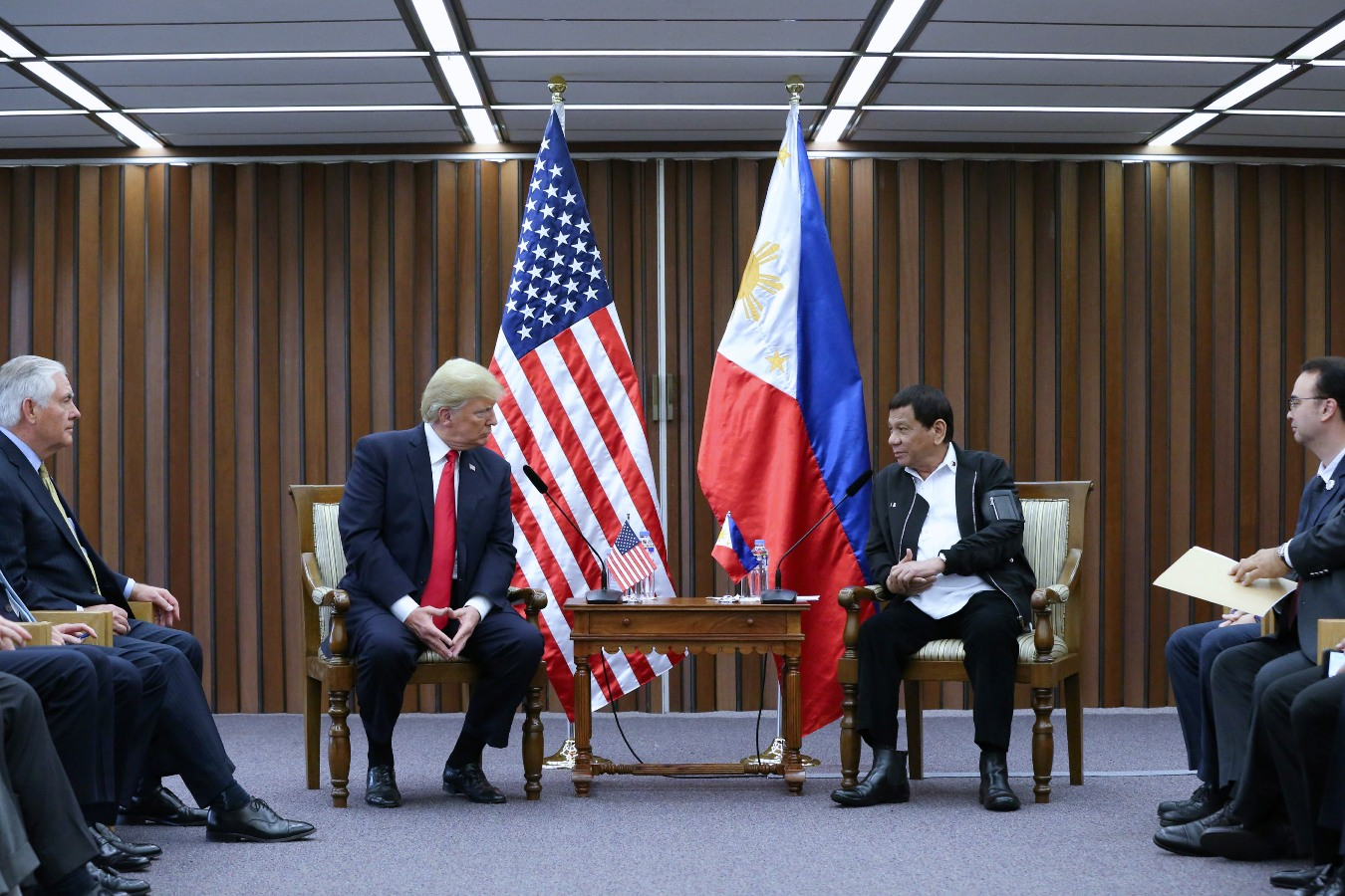 President Rodrigo Roa Duterte and US President Donald Trump discuss matters during a bilateral meeting at the Philippine International Convention Center in Pasay City on November 13, 2017. KARL NORMAN ALONZO/PRESIDENTIAL PHOTO